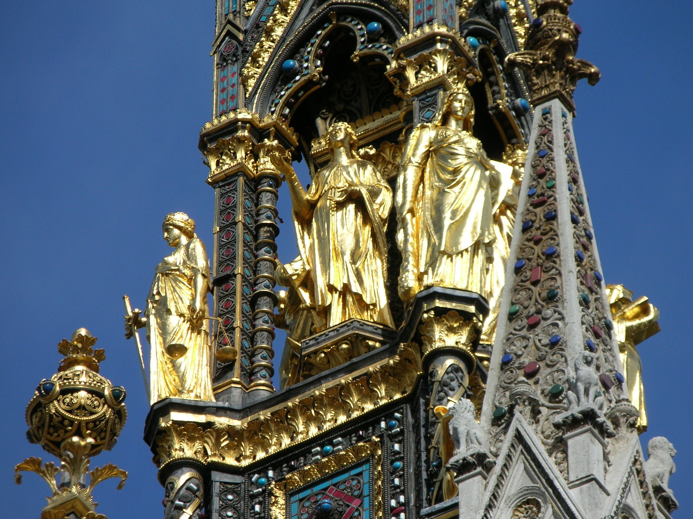 Photograph of the figures on the tower of the Albert Memorial